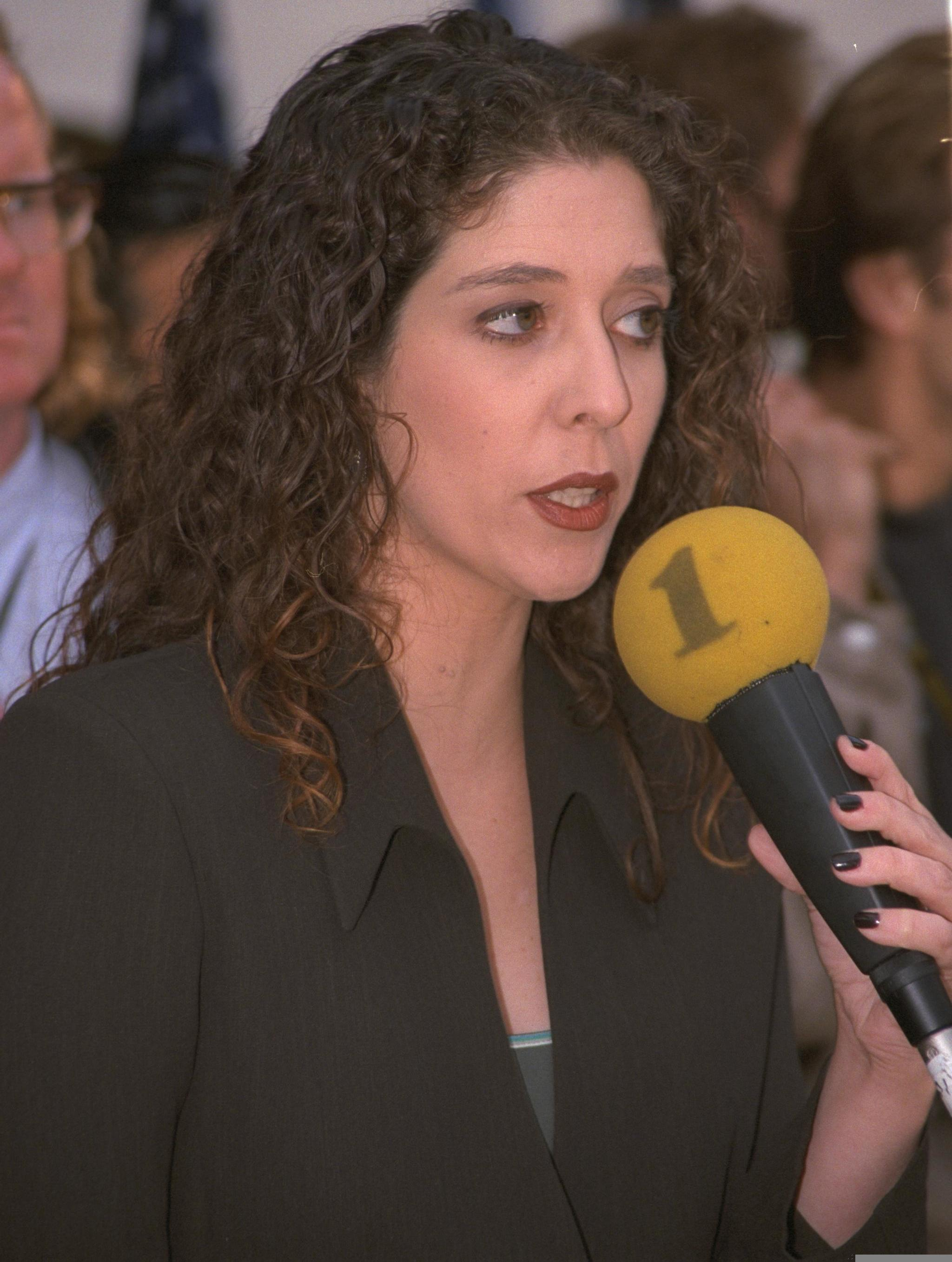 Journalist & broadcaster Keren Noybach.